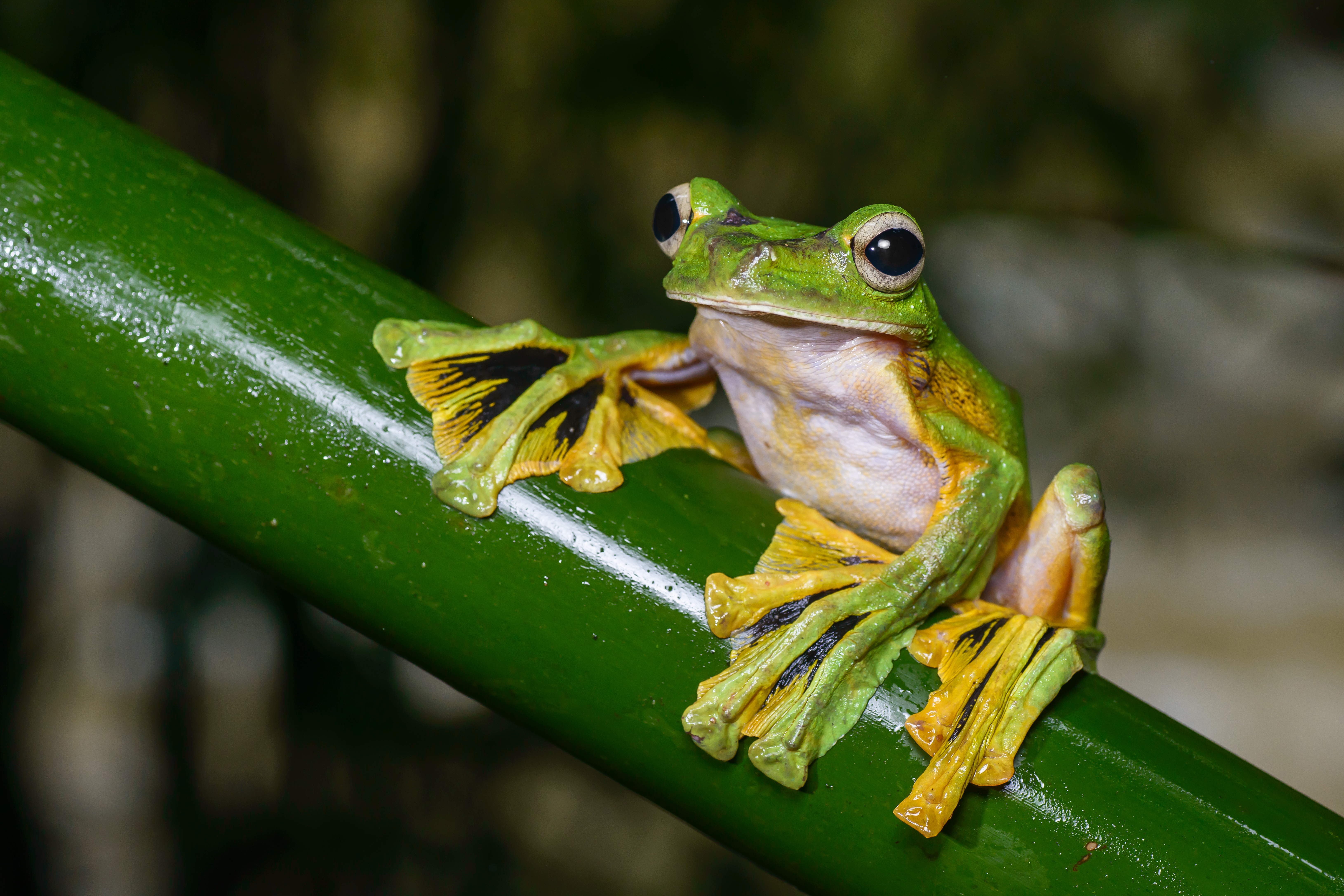 Rhacophorus nigropalmatus, Wallace's flying frog - Khao Sok National Park. Photo by Thai National Parks